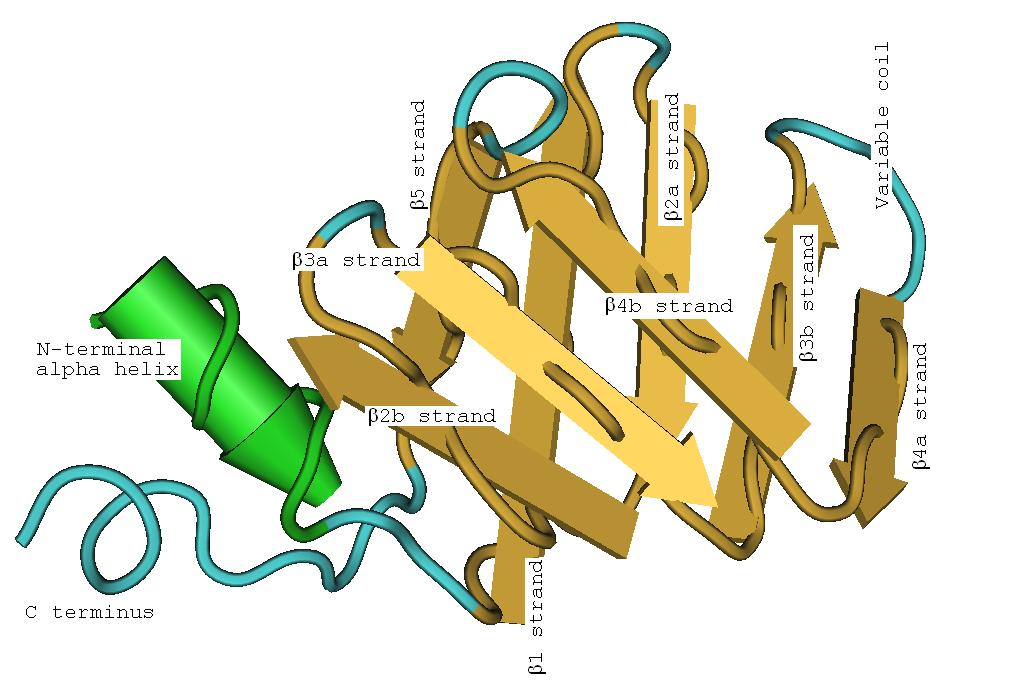 PDB ID:1B34 Kambach C, Walke S, Young R, Avis JM, de la Fo, Raker VA, Luhrmann R, Li J, Nagai K. Crystal structures of two Sm protein complexes and their implications for the assembly of the spliceosomal snRNPs. Cell v96, p.375-387